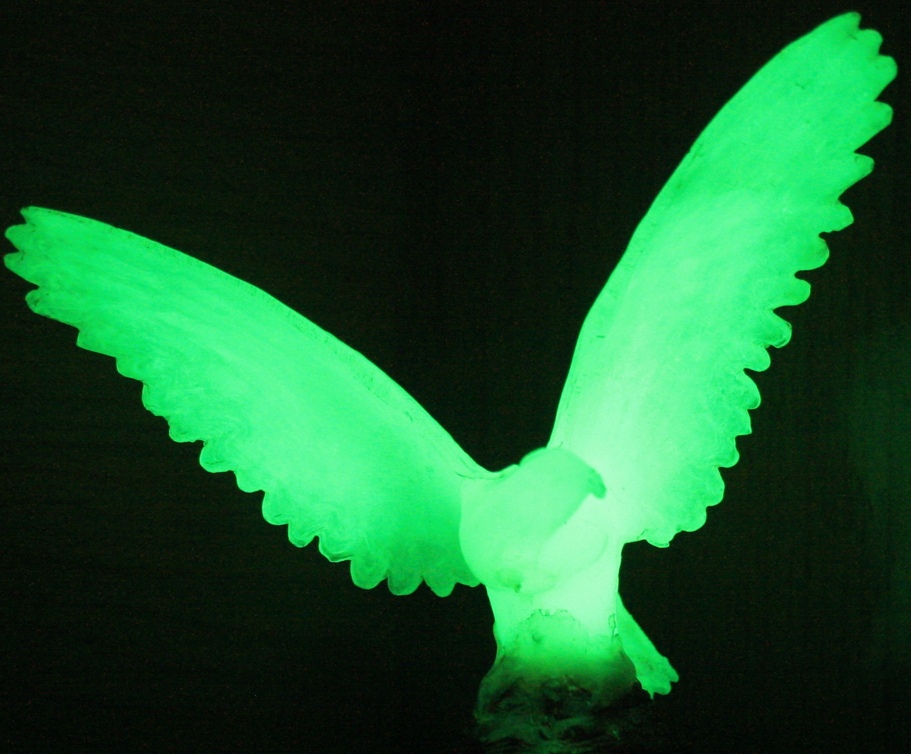 Phosphorescence